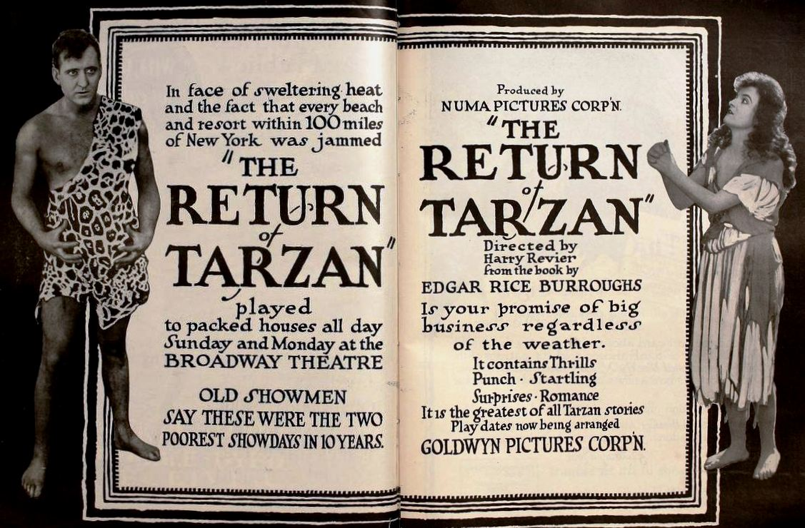 Ad for the American film The Revenge of Tarzan (1920) (using its working title The Return of Tarzan) with Gene Pollar and Karla Schramm, on pages 4738 and 4739 of the June 12, 1920 Motion Picture News.